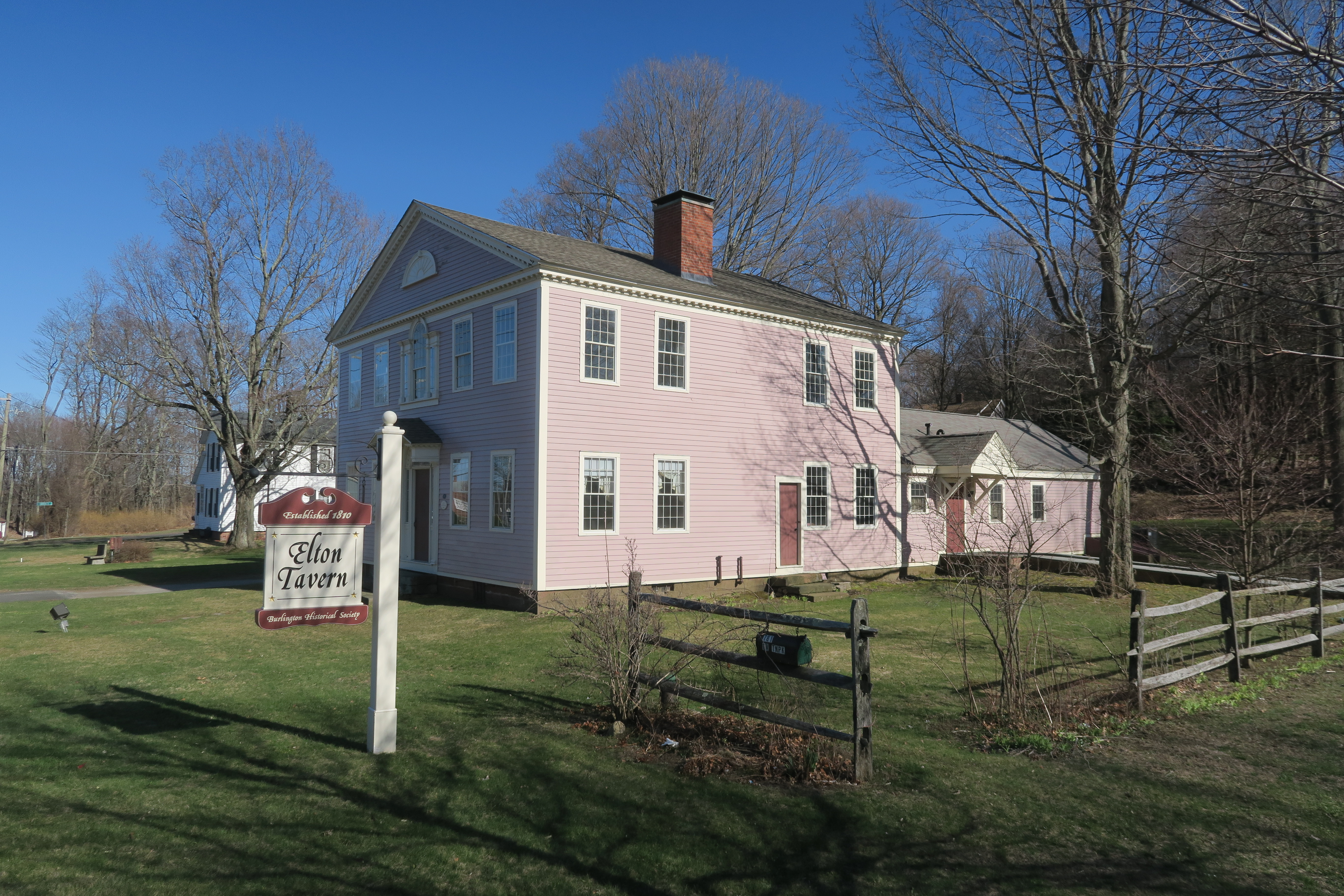 Elton Tavern, Burlington Connecticut